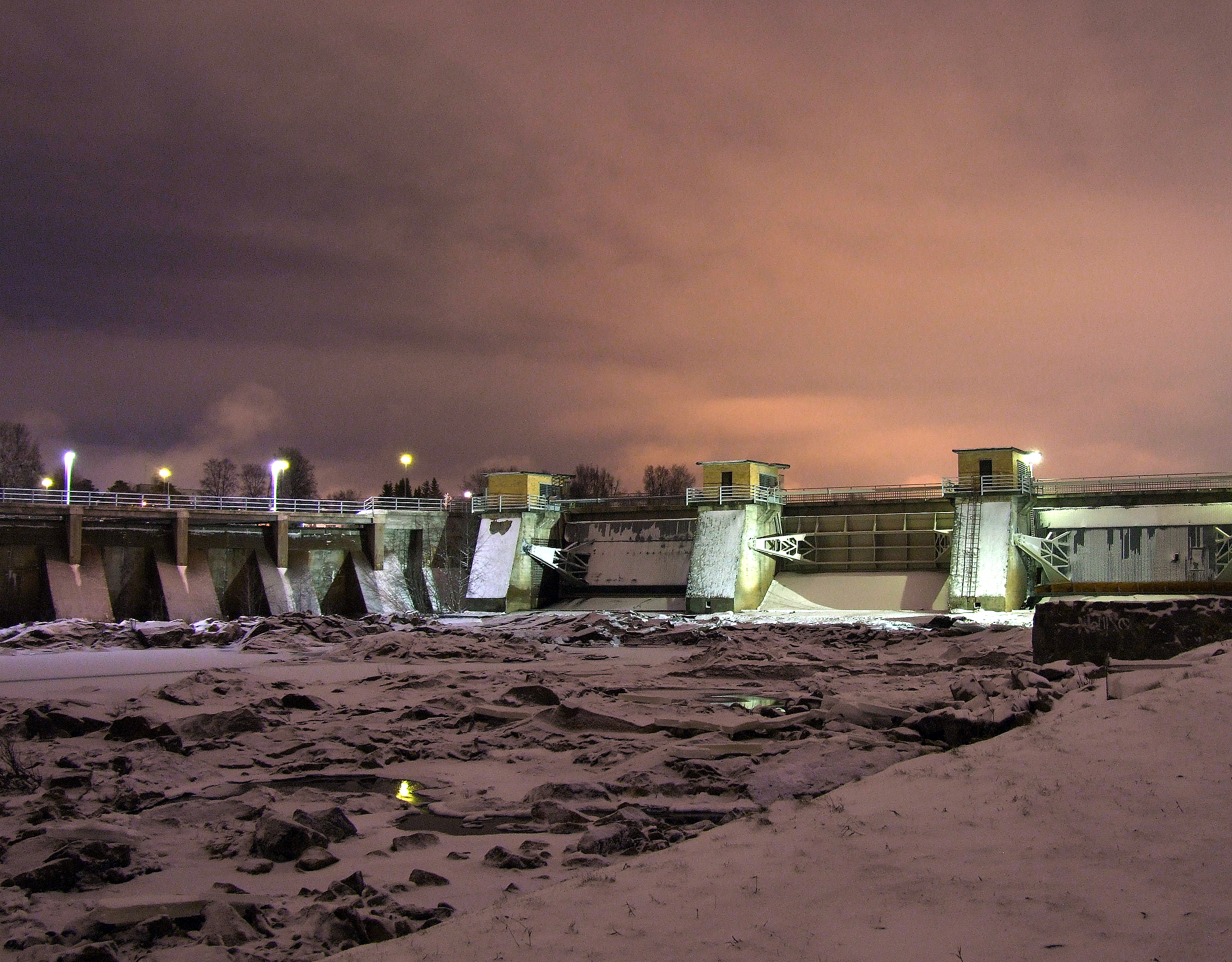 Merikoski Dam at winter night in Oulu, Finland